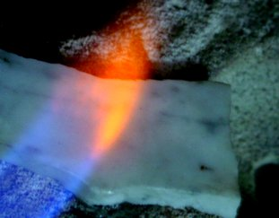 Calcium carbonate wetted with hydrochloric acid (thus forming CaCl2) held at a flame and showing red-orange flame color.